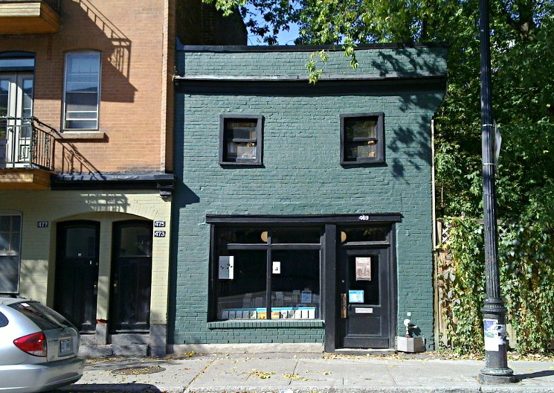 The Word Bookstore at 469 Milton Street in Montreal, Canada.